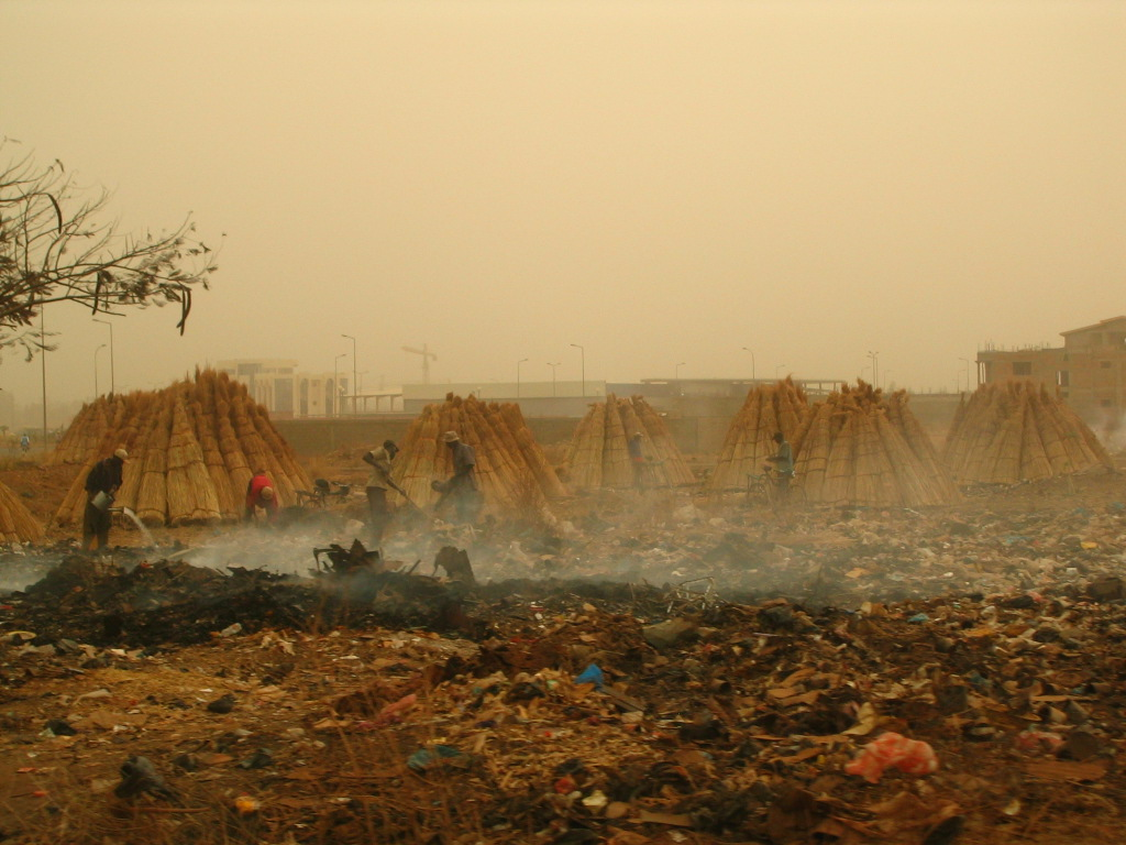 People working at a Garbage Field in Bamako - 14th February 2005.jpg Taken by Guaka